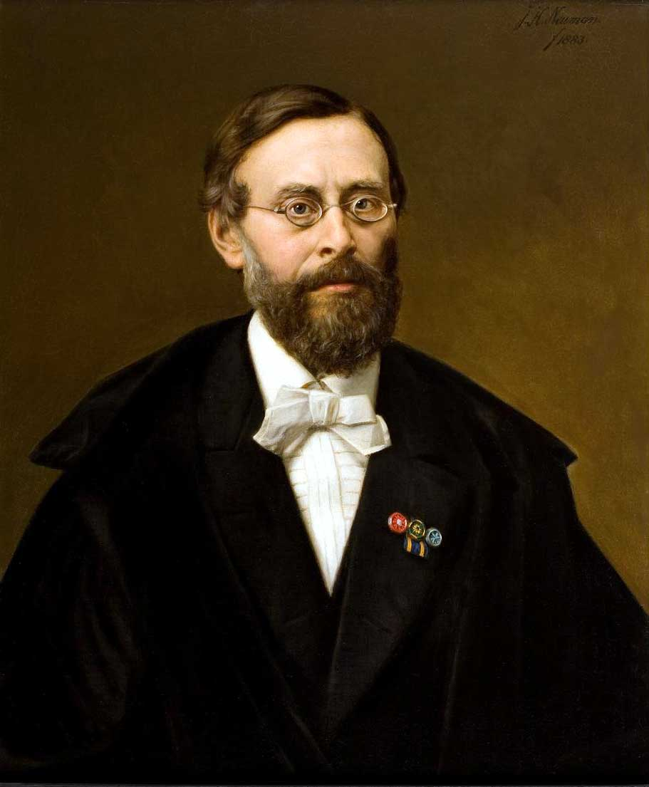 Reinhart Pieter Anne Dozy (1820-1883) Dutch orientalist and historian